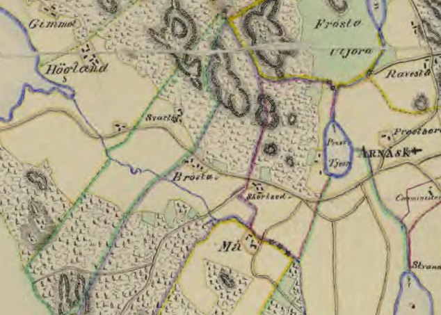 Part of map of Arnäs parish in northern Sweden from 1851. The map shows the area between lake Höglandssjön and Arnäs church. Along the old road are the villages Svartby, Brösta and Skortsed. Today, road E4 lies somewhat further south.